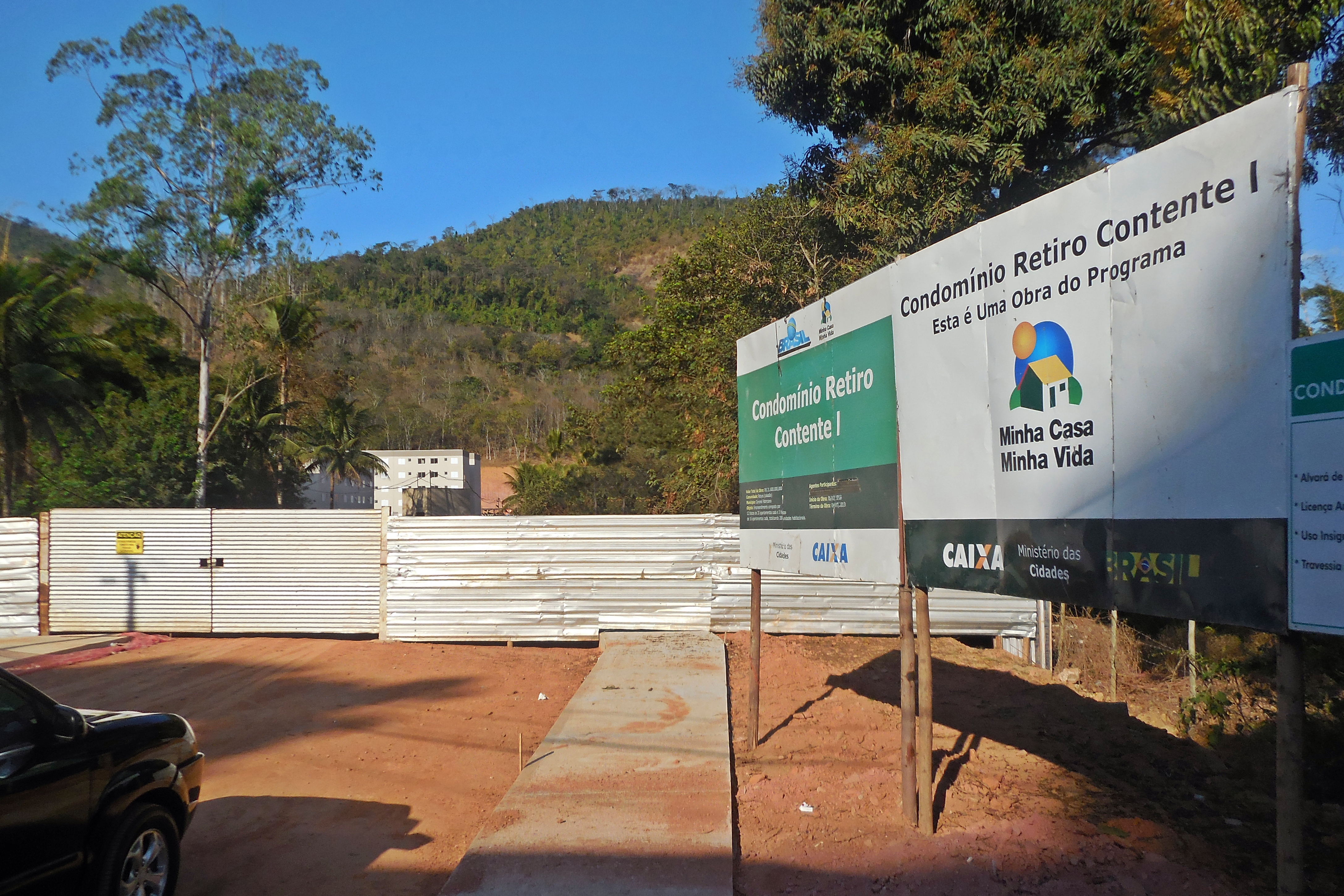 Construction of the Condomínio Retiro Contente I (Retiro Contente I condominium), in Coronel Fabriciano, Minas Gerais, Brazil.